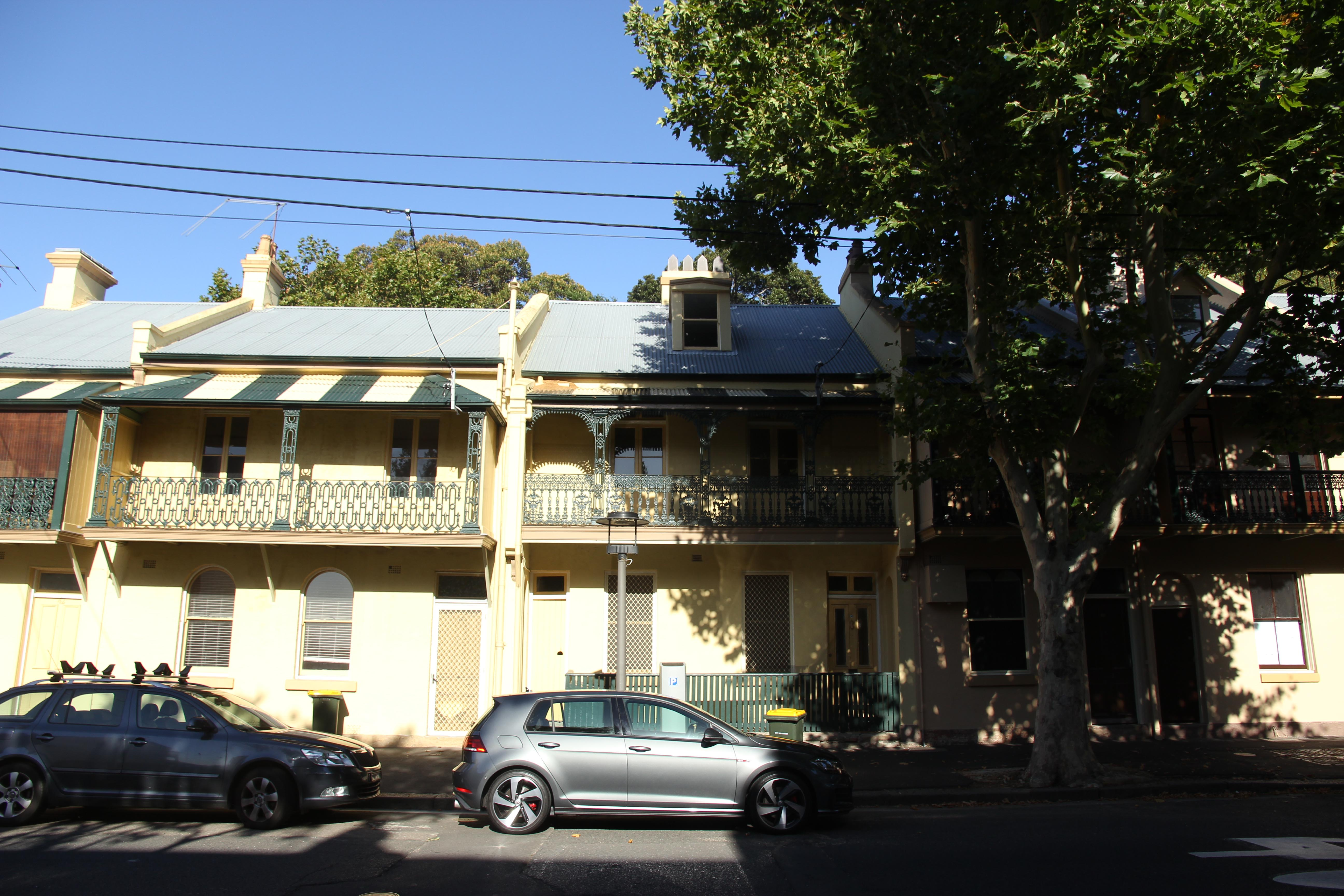 90-92 Kent Street (at left) and Toxteth, 94 Kent Street (at right), Millers Point, City of Sydney, New South Wales, Australia